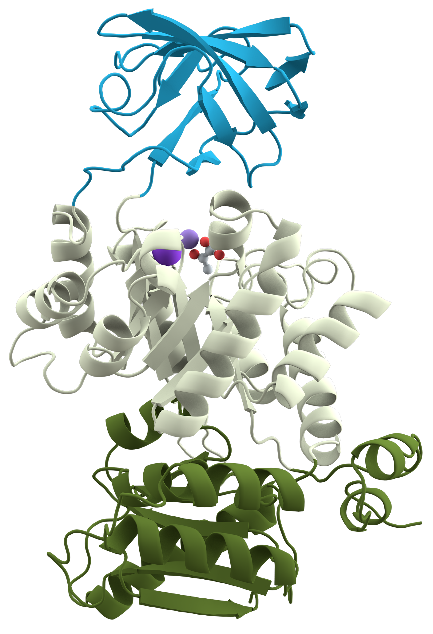 Visualization of the three domains of the protein Pyruvate kinase. Based on PDB: 1PKN​